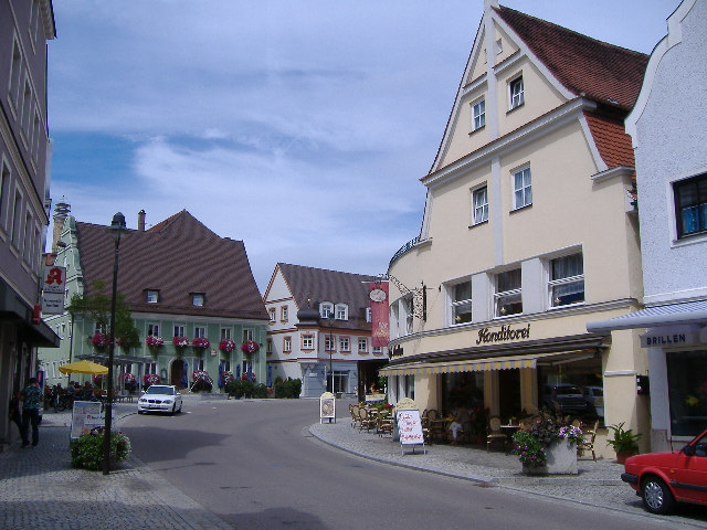 Town centre of Wertingen